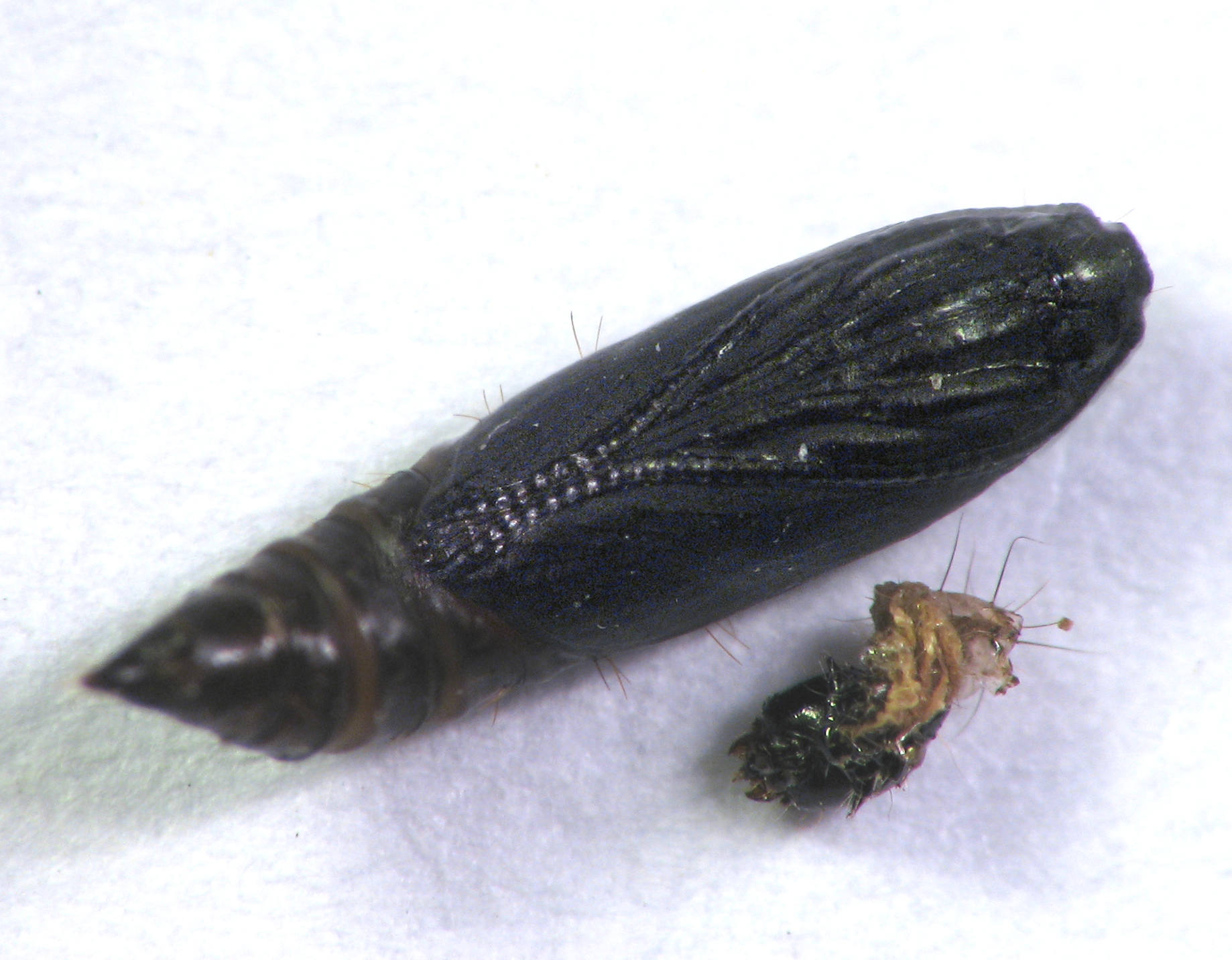 Pupa and head capsule of gelechid moth, Dichomeris inserrata (Indented Dichomeris Moth - Hodges#2297) found inside stem gall of goldenrod. Size: 6 mm. Horsham trail. Horsham, Montgomery County, Pennsylvania, USA.